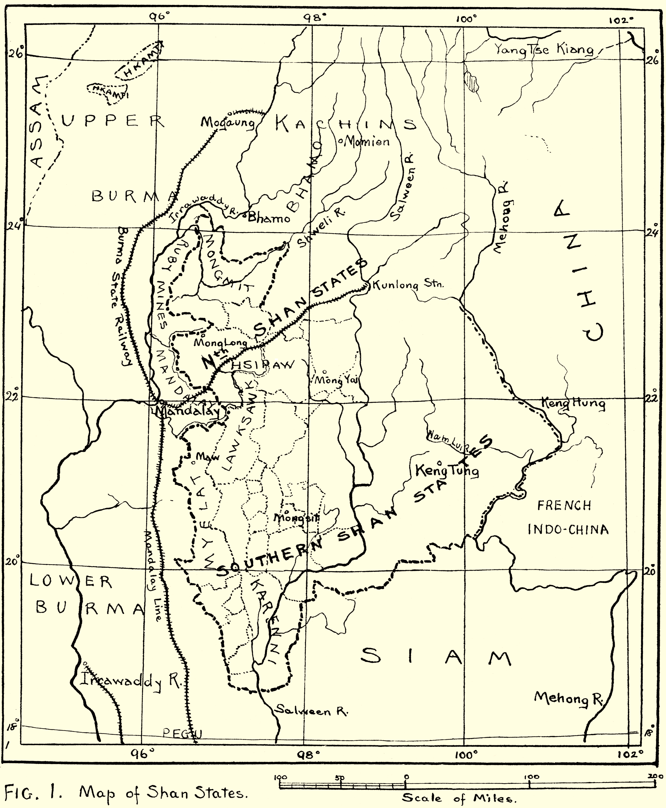 A map of Shan States from the booklet: "Burmese textiles".